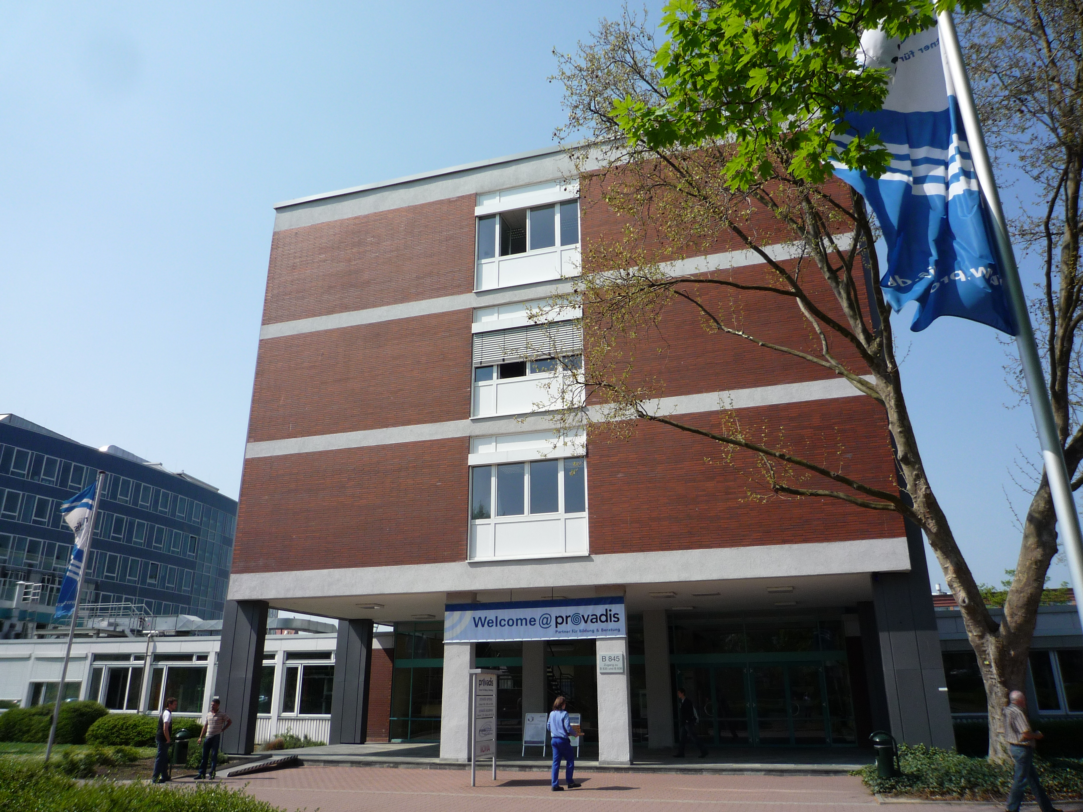 Campus der Provadis School of International Management and Technology